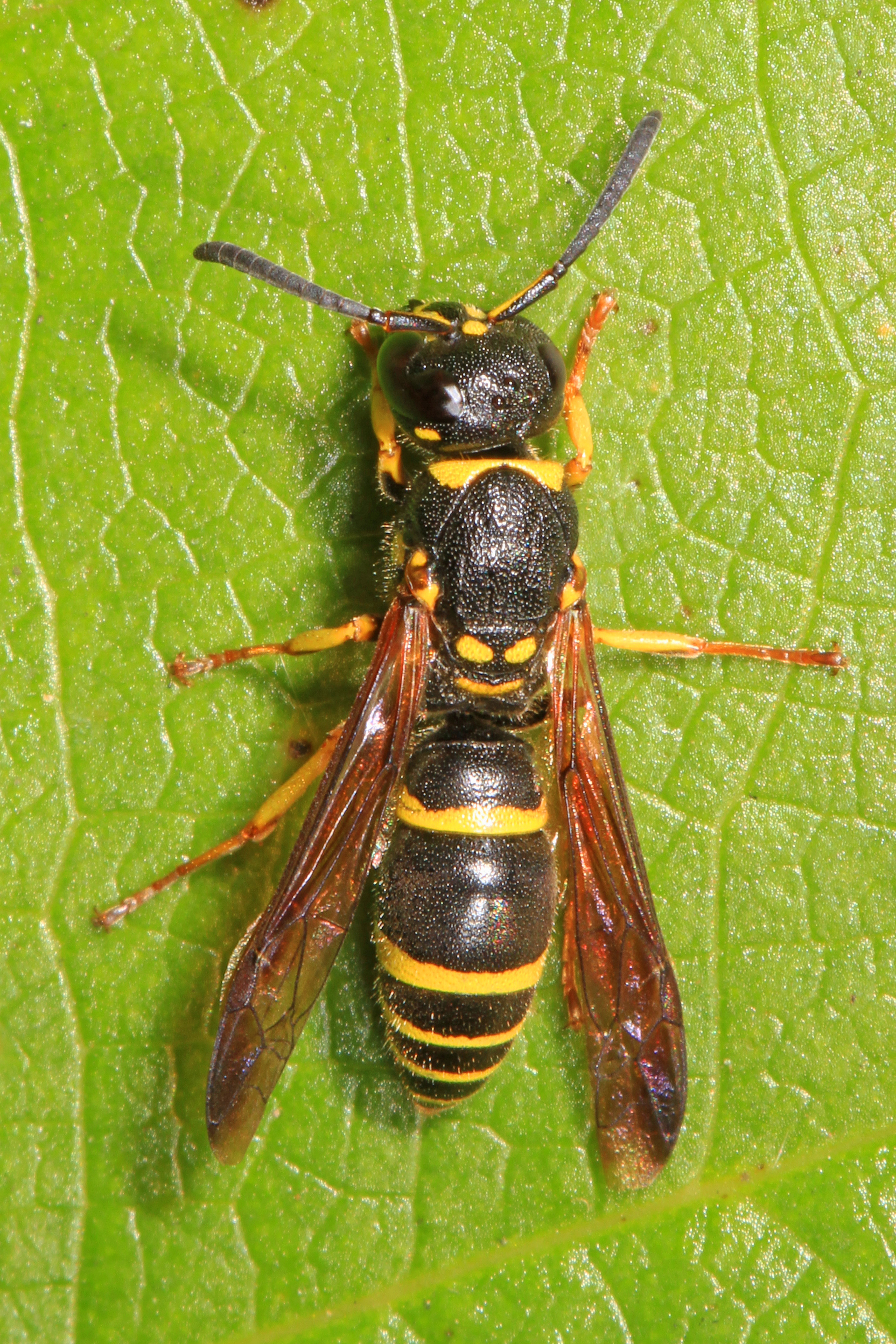 Wasp - Ancistrocerus adabiatus, Occoquan Bay National Wildlife Refuge, Woodbridge, Virginia